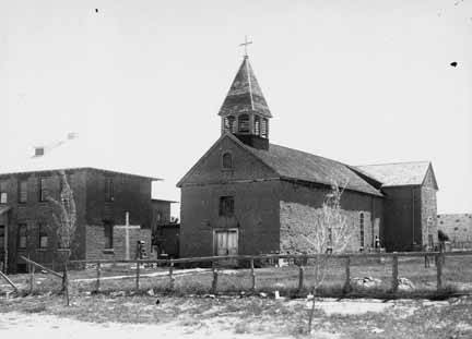 Church at Pena Blanca, New Mexico in 1915